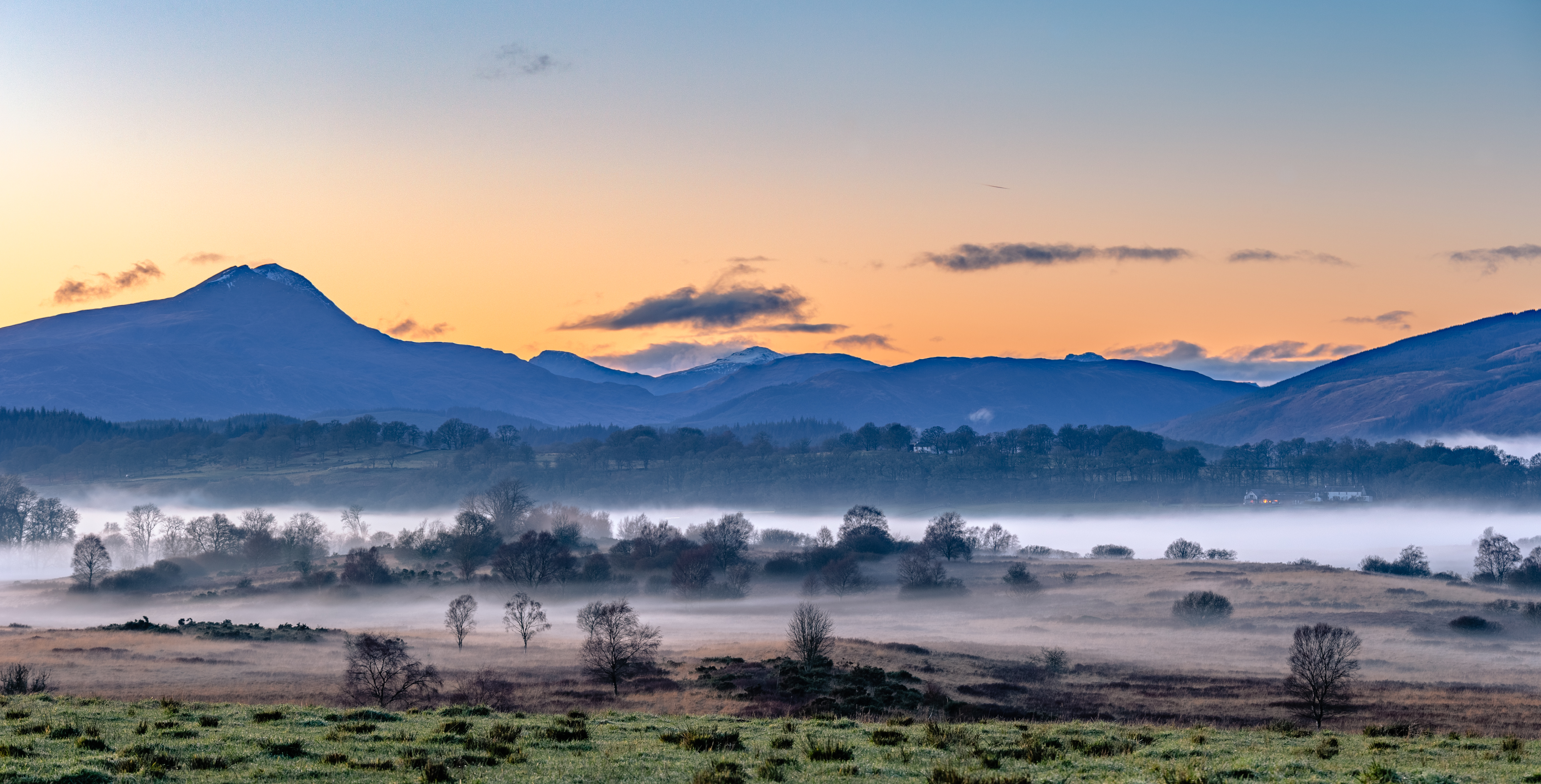 Sunset in Loch Lomond and The Trossachs National Park. High peak on left site is Ben Lomond (974m). Scotland